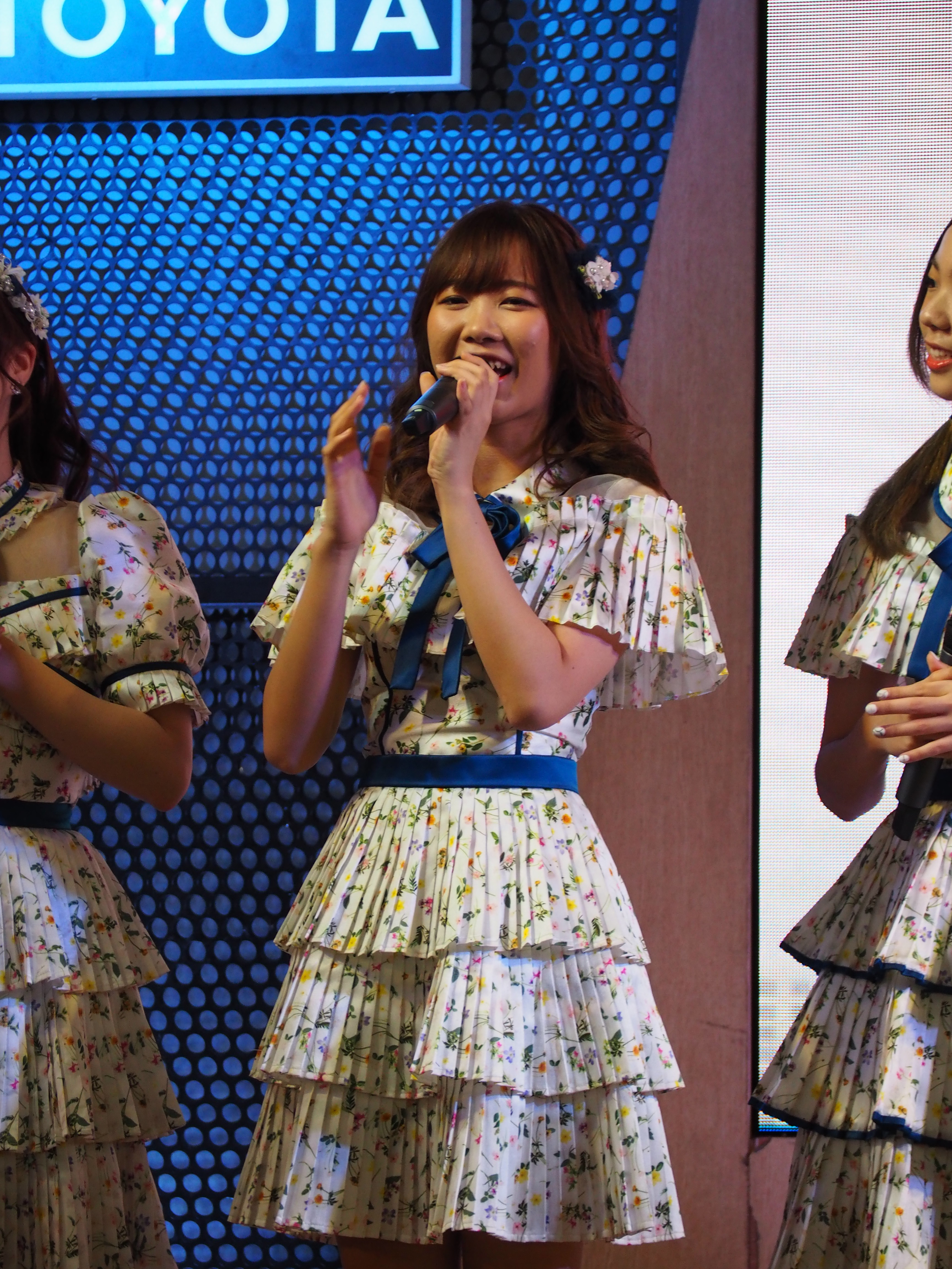 Pupe BNK48 (Jiradapa Intajak) @Toyota Big Day Special in Central Plaza Khon Kaen, Khon Kaen, Thailand.